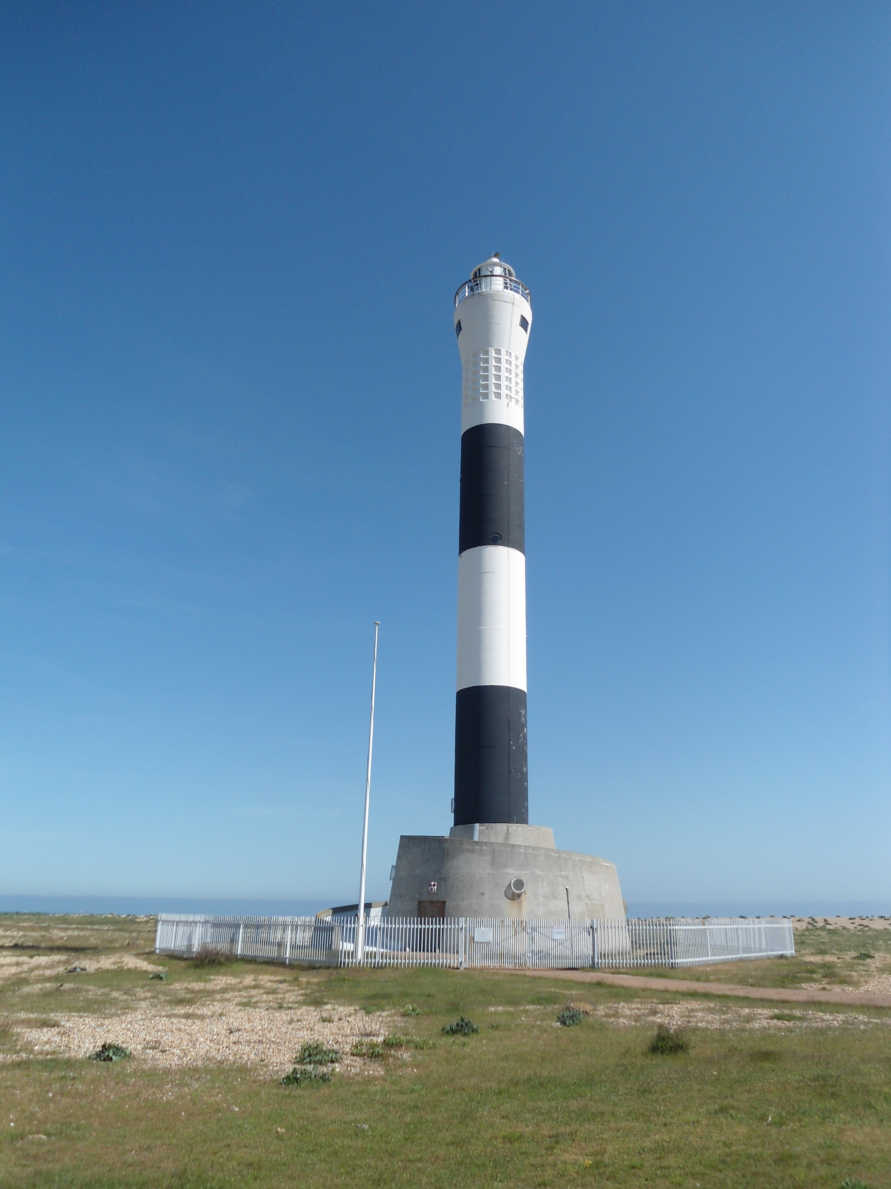 this light house is in england